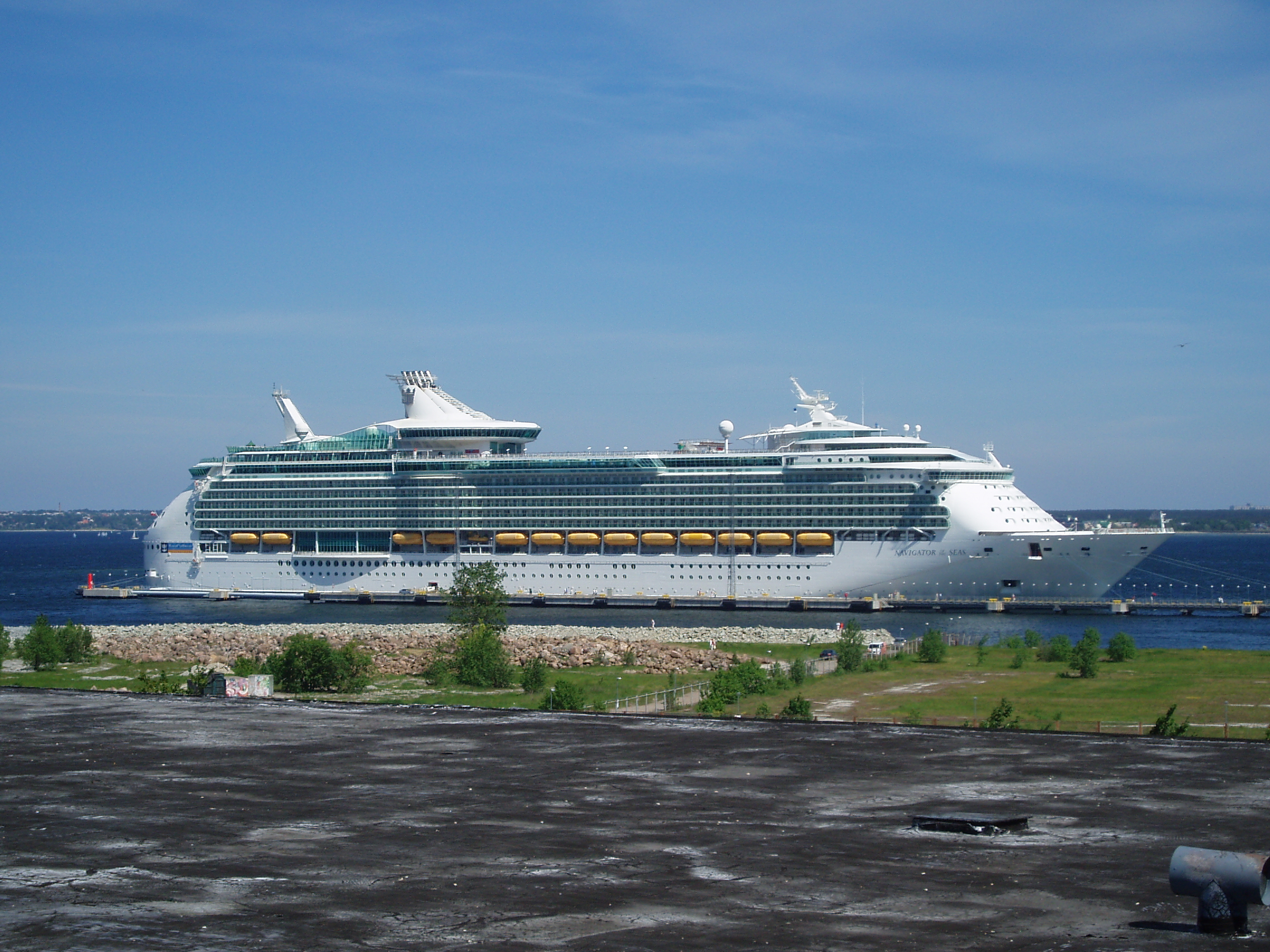 Navigator of the Seas at pier 25, captured from Tallinna Linnahall, Tallinn 10 June 2007